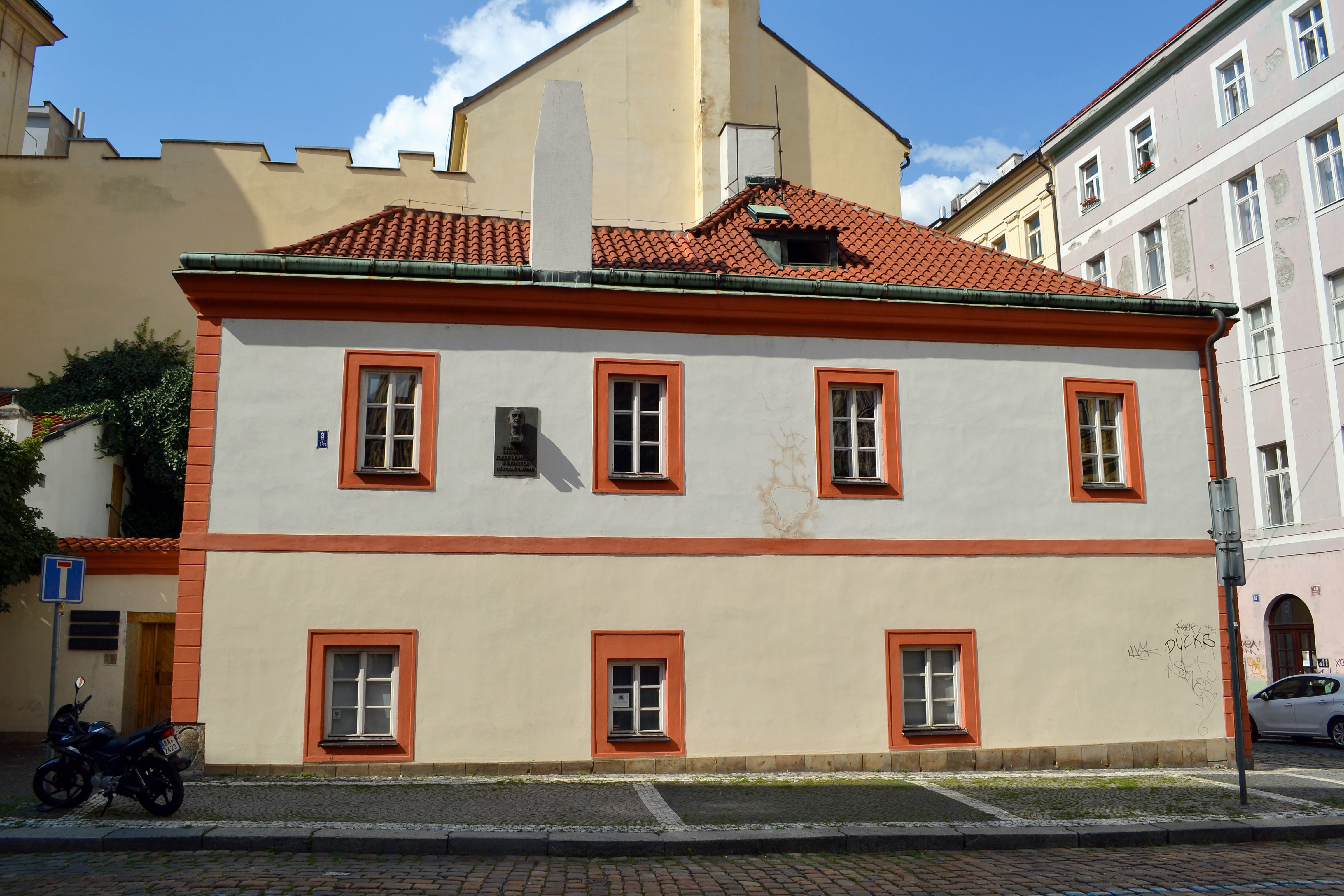 House known as "U Hrubšů", a cultural monument. Pštrossova 201/19, Nové Město, Prague 1, Czech Republic.